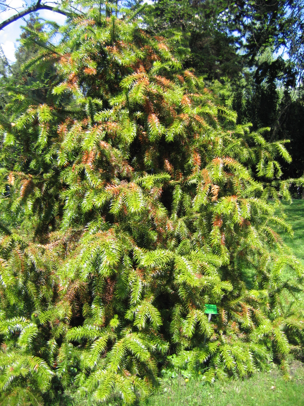 Chinese fir (Cunninghamia lanceolata), cultivated in Wrocław University Botanical Garden, Wrocław, Poland.